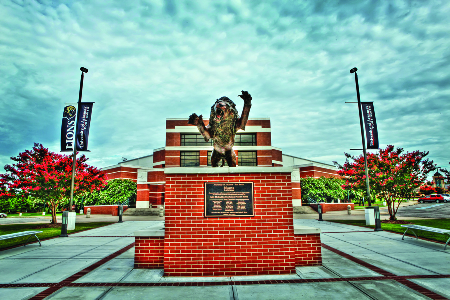 University of Arkansas - Fort Smith